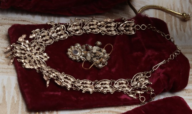 Filigree Choker and tambourine necklace of Our Lady of Solitude of Porta Vaga